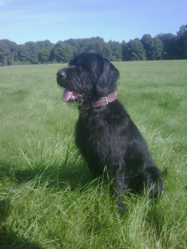 Adult male Pudelpointer Perazzi